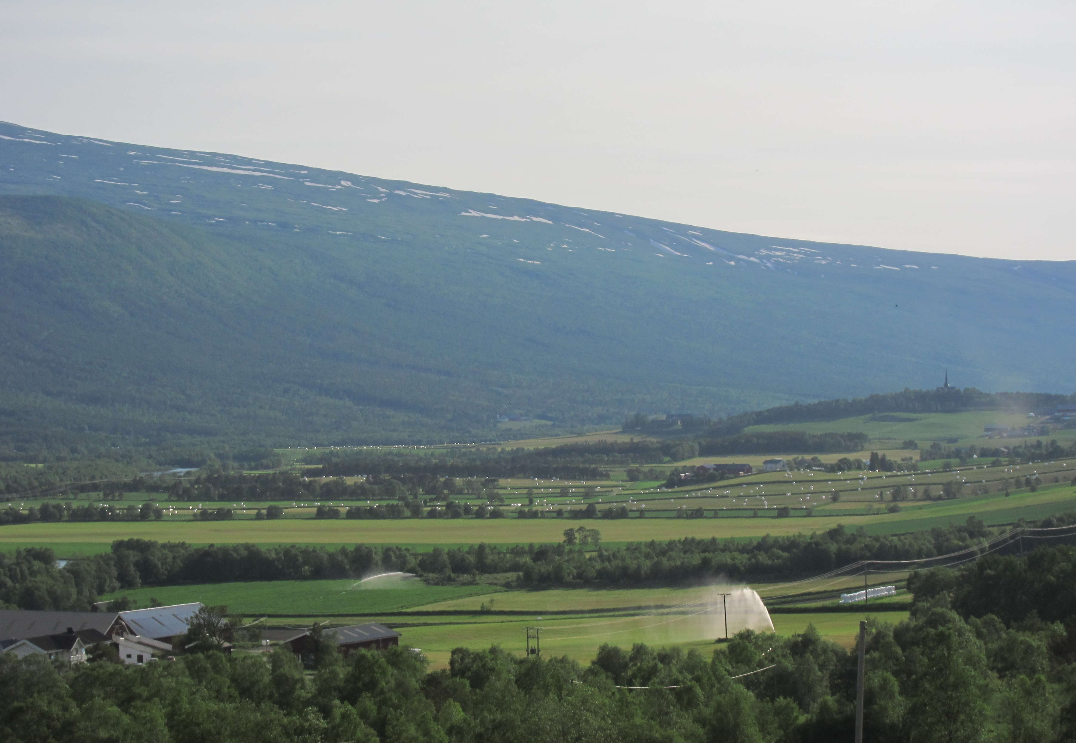 Lesja valley floor with church. Camera position 608 meters above sea level